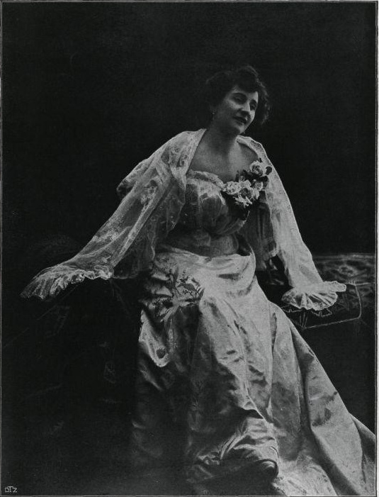 Zofija Borštnik (1868-1948), Slovene actress